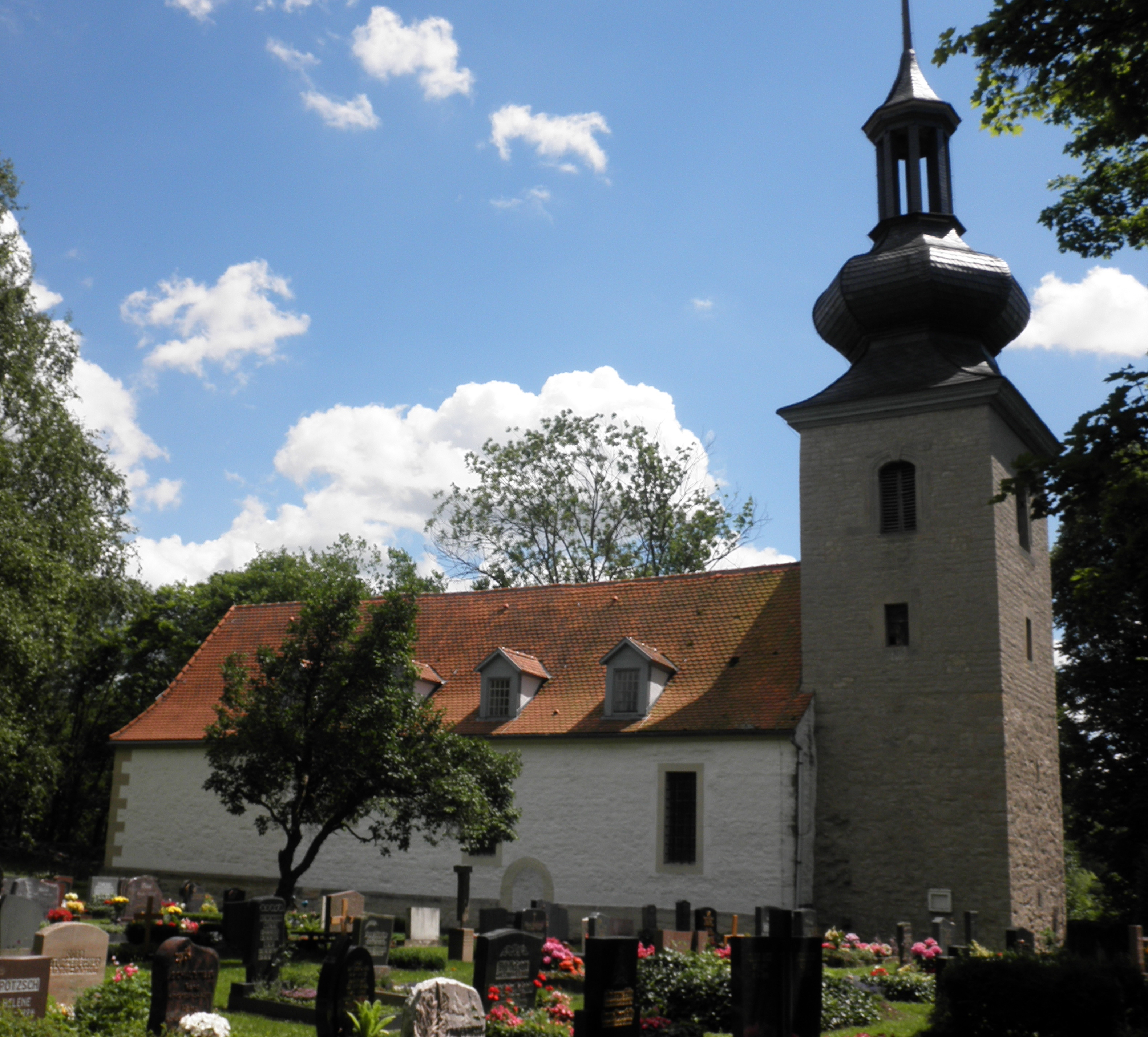 Church im Möbisburg (Erfurt) in Thuringia